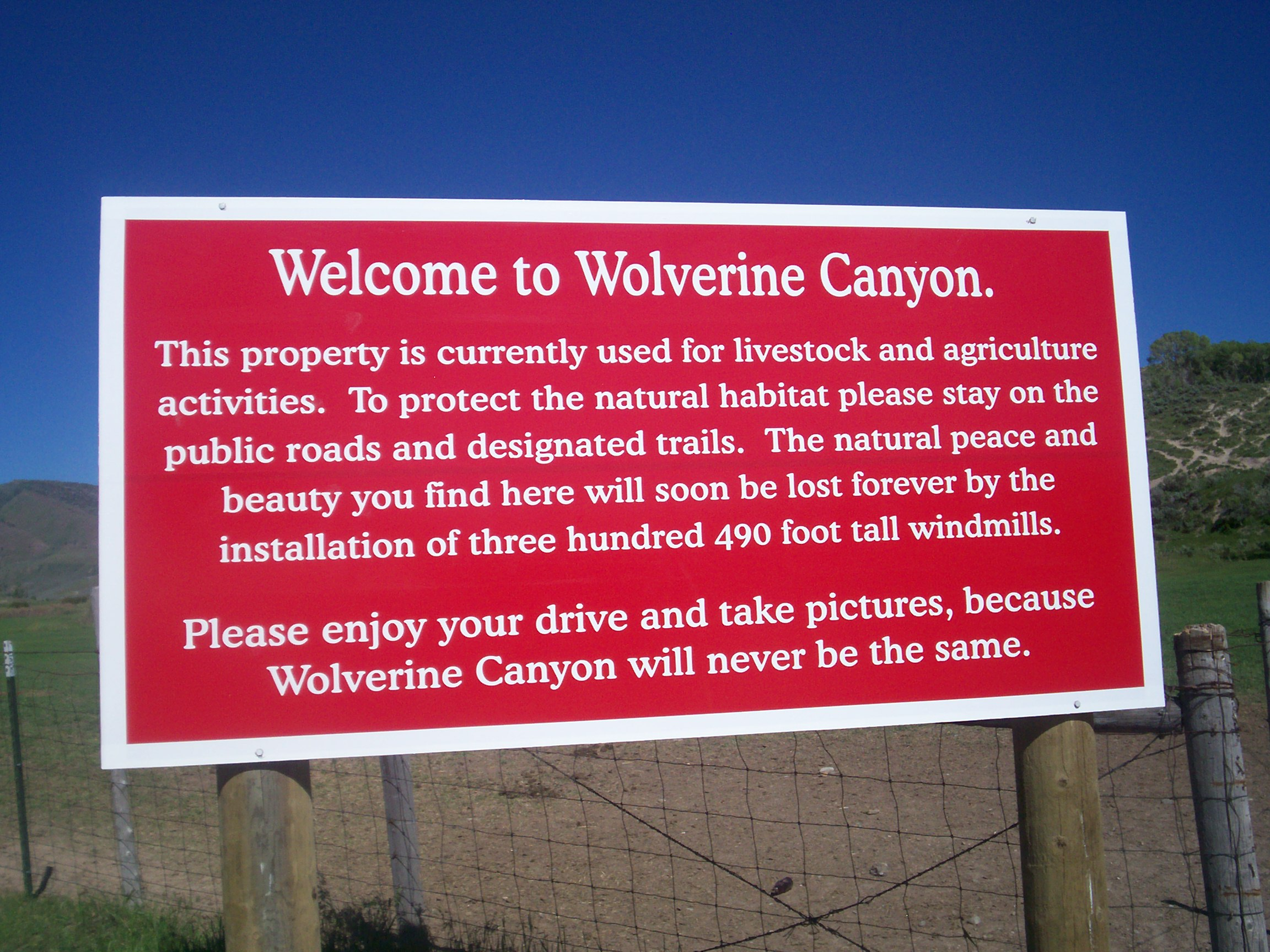 A local land owner erected this sign to protest the construction of a wind farm in wolverine canyon, in bingham county idaho